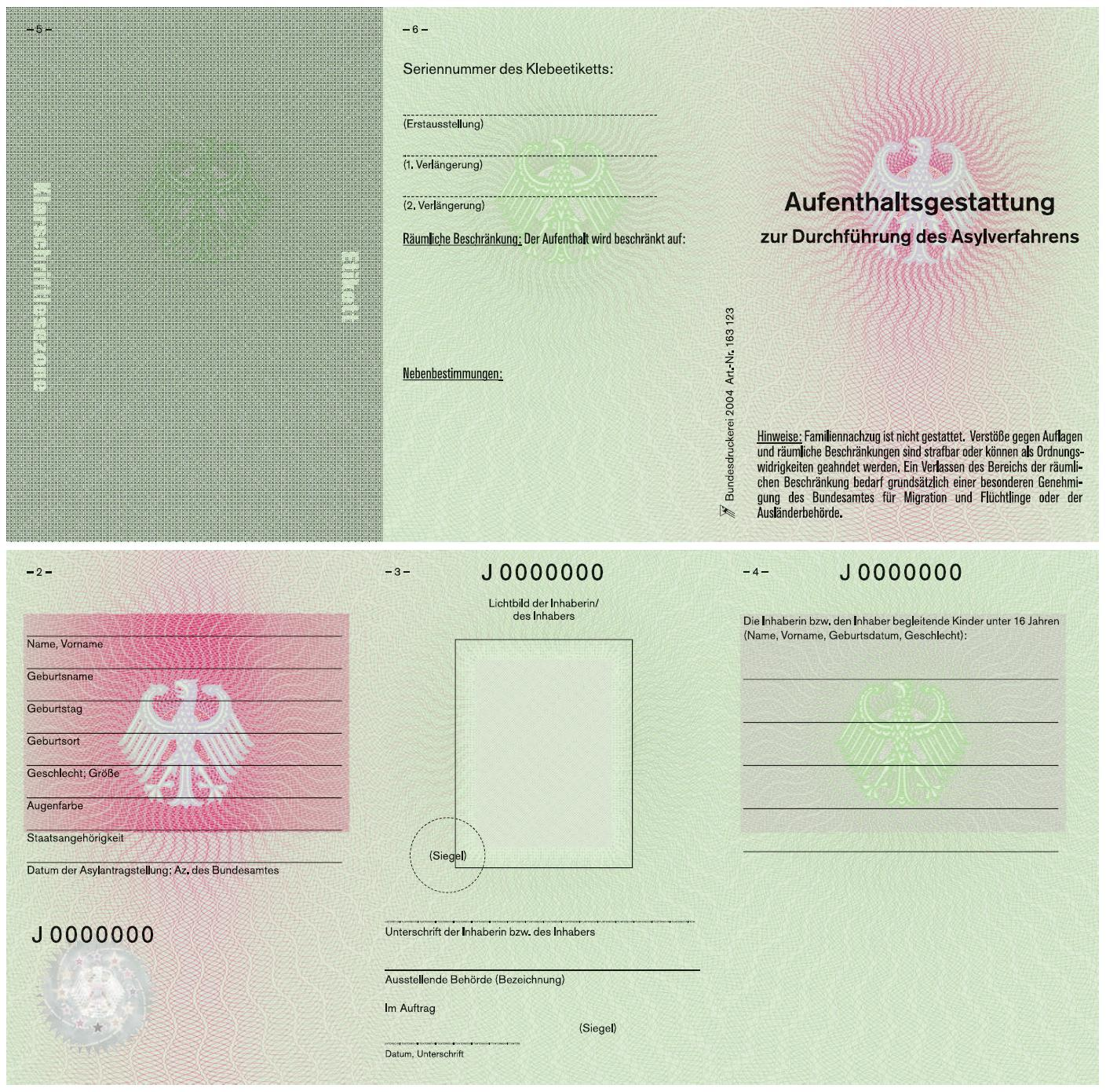 Basic form of a temporary residence permit for asylum seekers in Germany